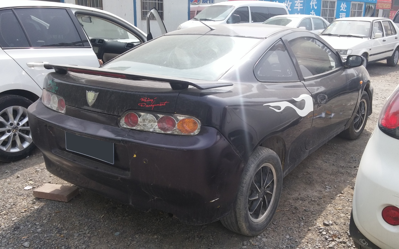 Geely Meirenbao photographed in Zhengzhou, Henan province, China.